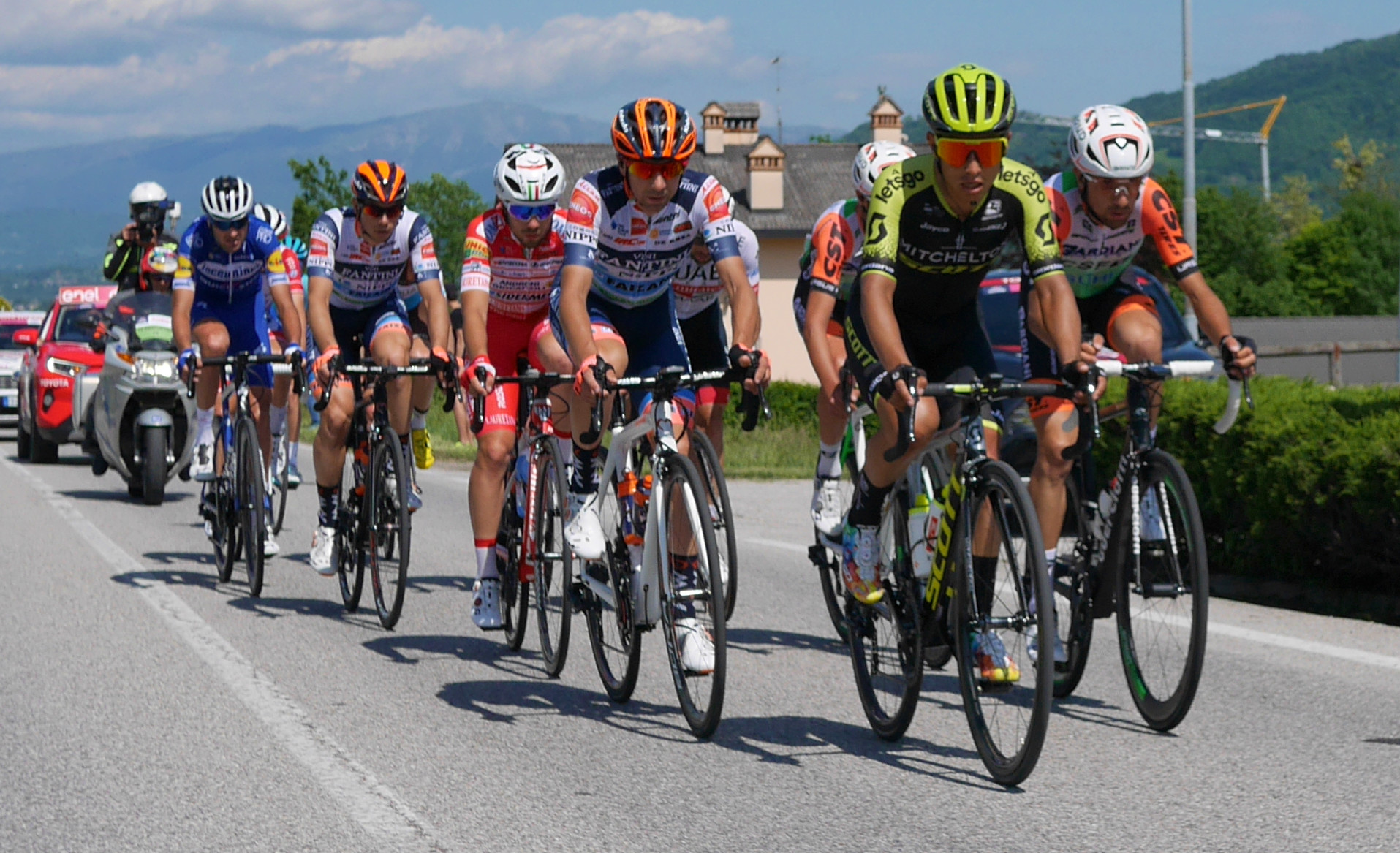 Giro d' Italia (Stage 19) leading group and winner of the Stage 19 Esteban Chavez (Mitchelton-Scott) leading the group